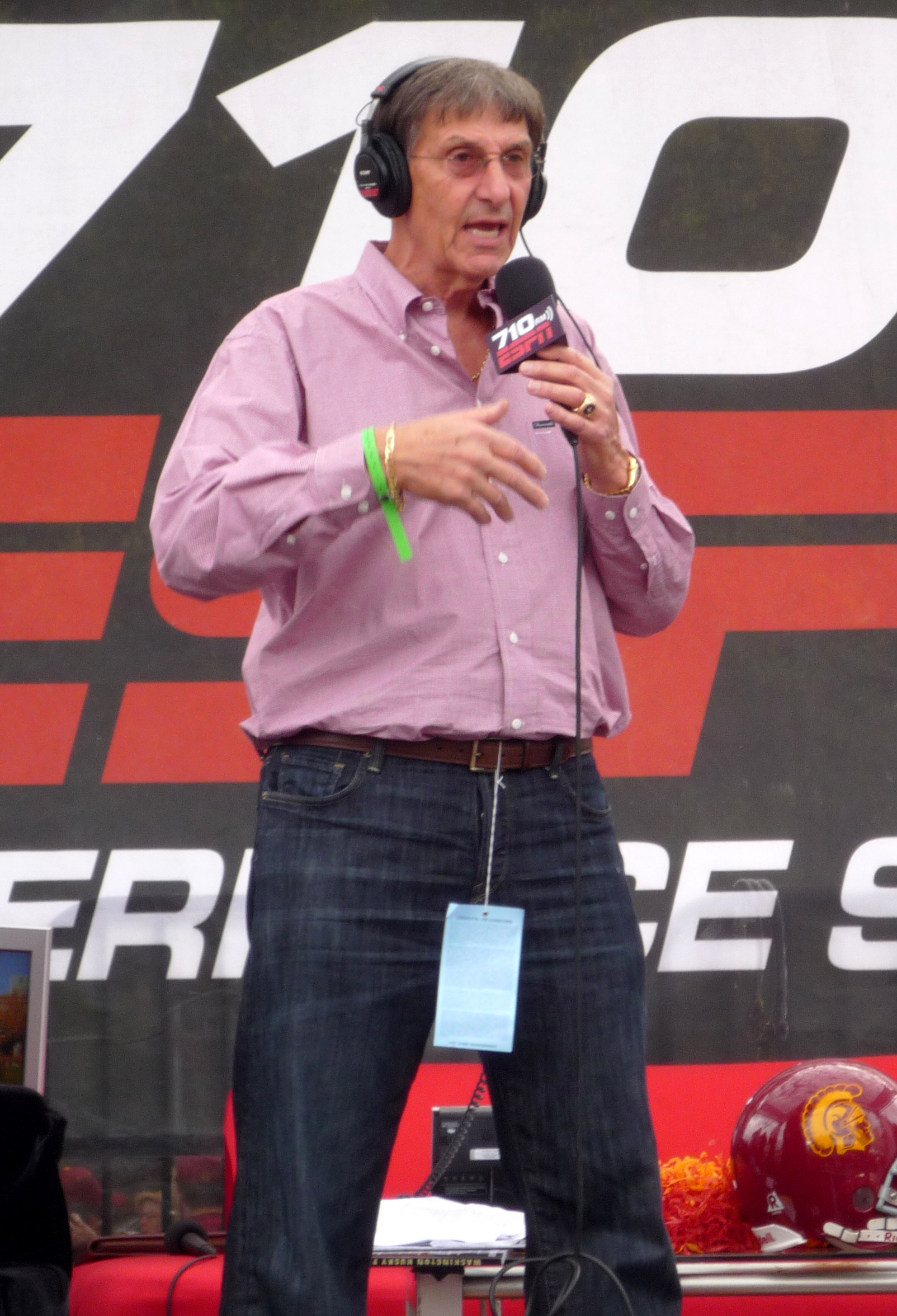 Harvey Hyde sports journalist and former head coach of the UNLV Rebels football program.